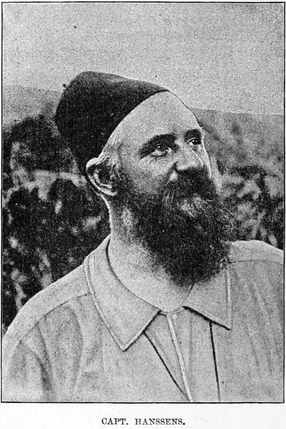 Pictures excerpted from HM Stanley's book "The Congo and the founding of its free state; a story of work and exploration (1885)"